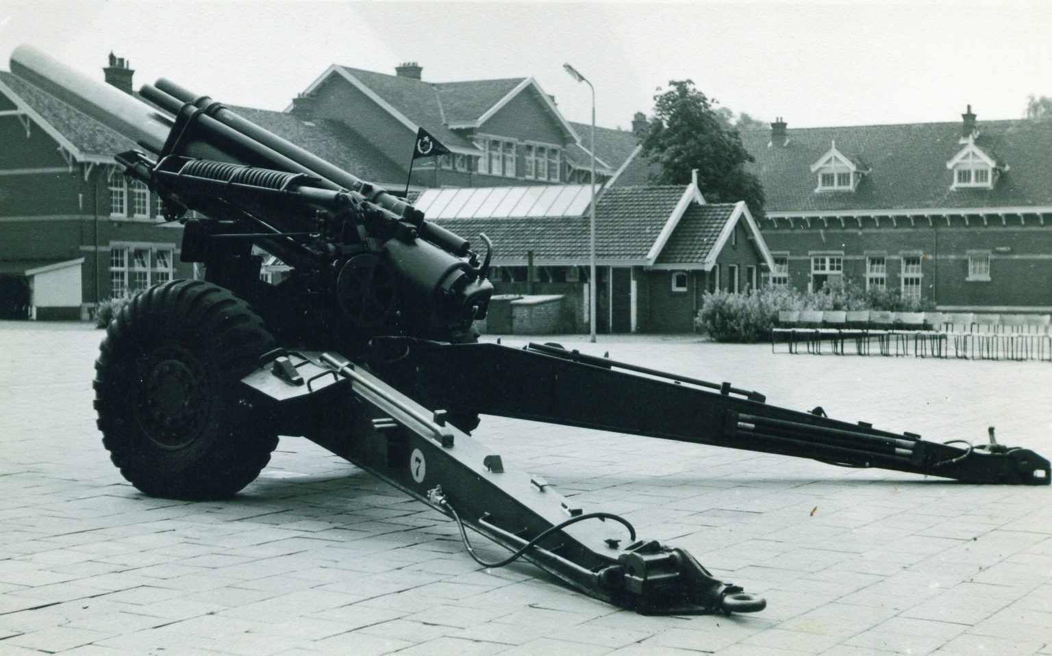 M114 155 mm Houwitser, 14 Afdva, Van Essen Kazerne Ede